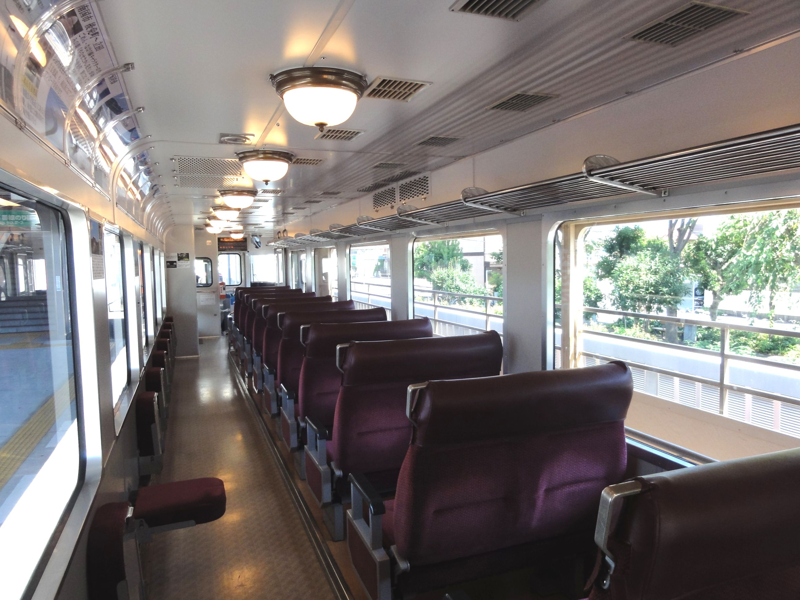 Interior of Tosa Kuroshio Railway 9640-1S DMU